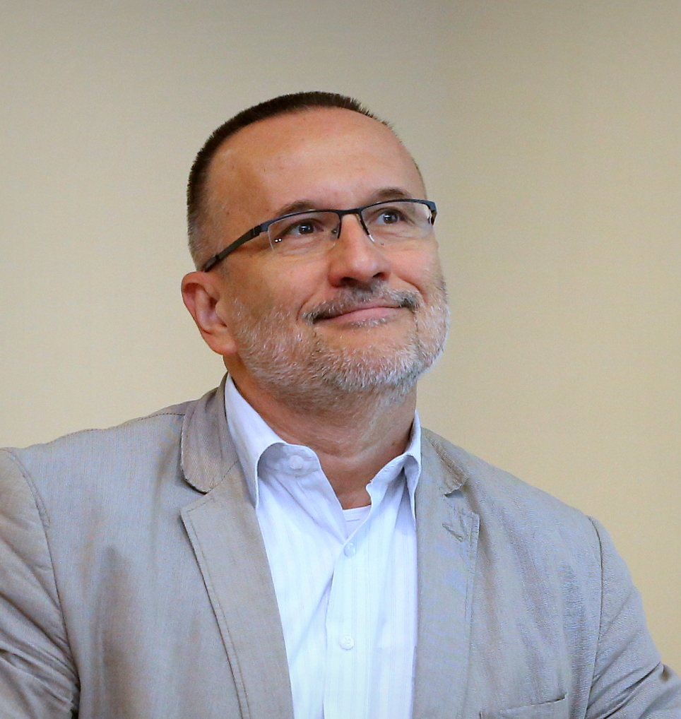 György Kaptay professor